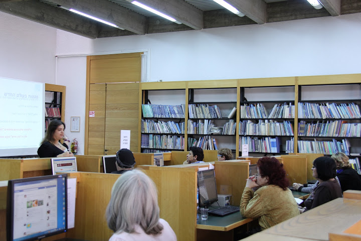 Reference Department in Beit Ariela, Education in Israel